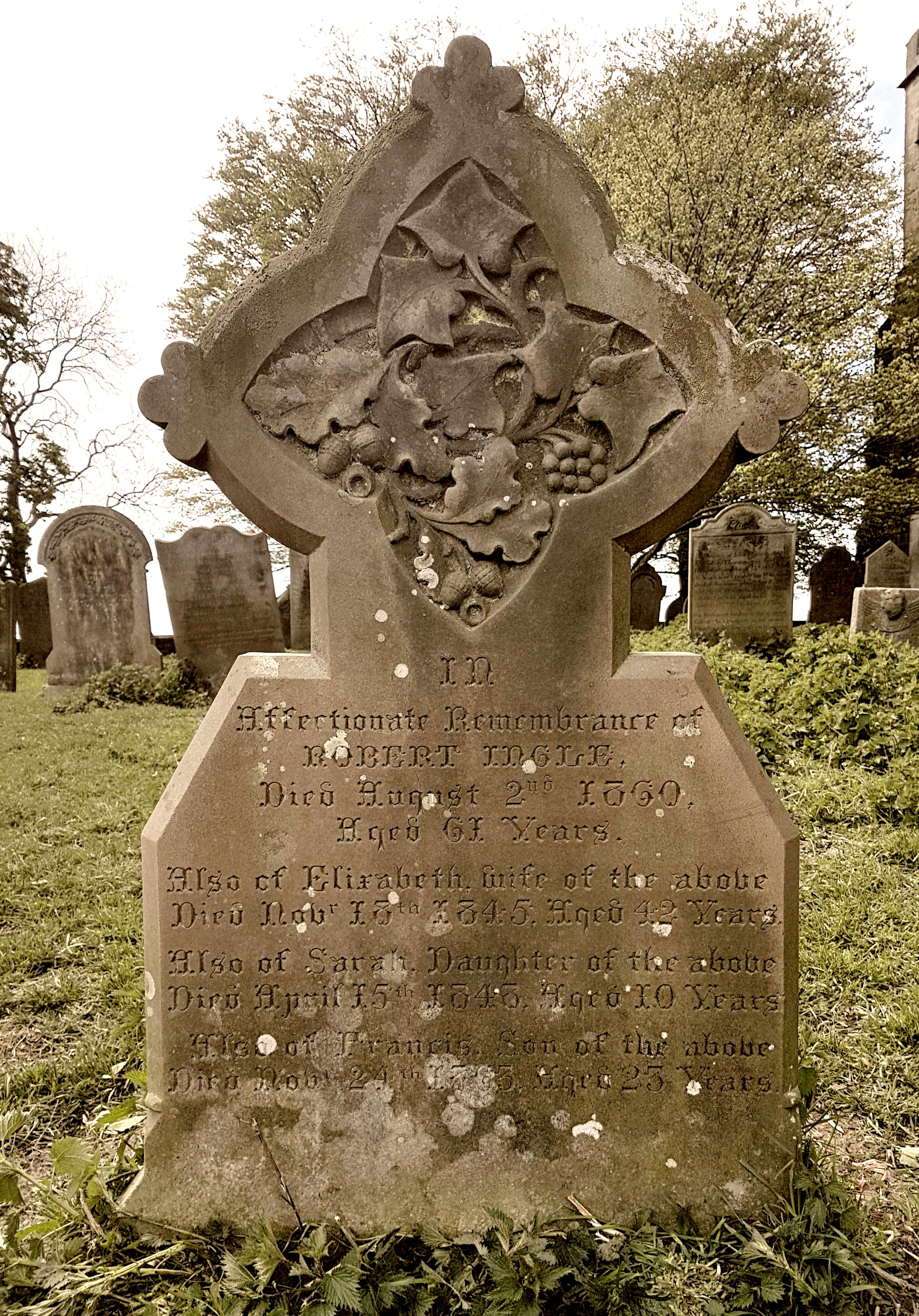 Gravestone of the parents of British sculptor William Ingle (1828-1870). The parents are Robert Ingle (1799-1860) and Elizabeth Ingle (1802-1845). The gravestone also commemorates Ingle's sister Sarah who died 15 April 1848, aged 10 years, and Ingle's brother Francis who died 24 November 1863 aged 23 years. The gravestone is carved with ivy and oak, which in contemporary religious terms represented faith and steadfastness respectively. Although Ingle could have carved the stone, it is not undercut in his manner of 1860, so it is possible that it is the work of John Wormald Appleyard, his neighbour and monumental mason.